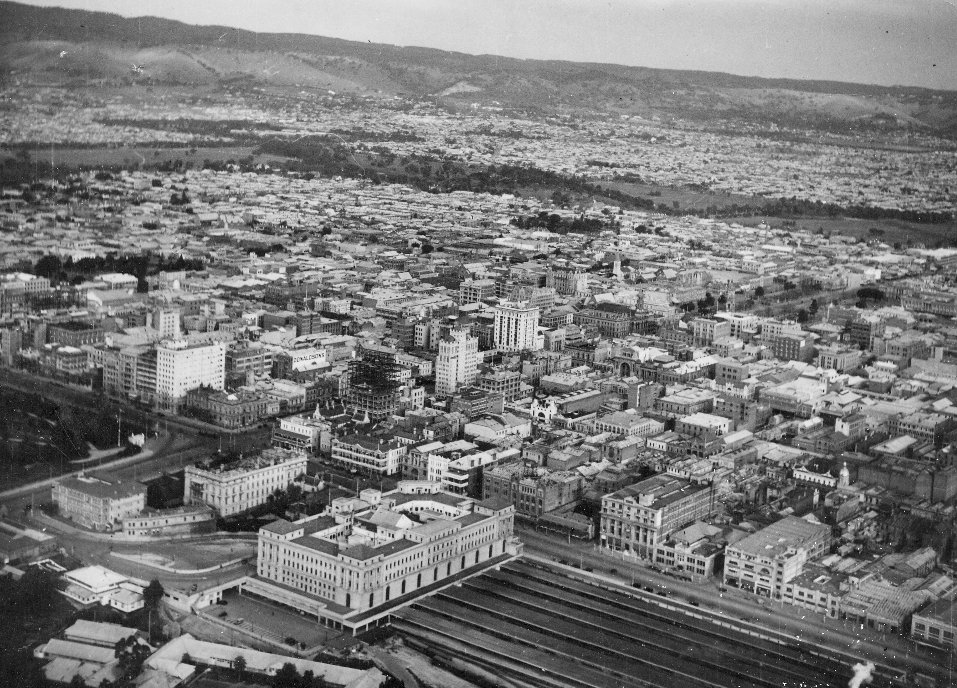 Aerial view of Adelaide in 1935 looking south east. The railway yards and Adelaide Railway Station are in the foreground. The city is surrounded by the parkland on the eastern and southern sides. The Adelaide foothills can be seen in the distance. The image originates in a low-resolution download available free of charge from the State Library of South Australia website (see “Source”). The library's web page states that a higher-resolution .tiff image (size 6.9 MB) is available for purchase from them.